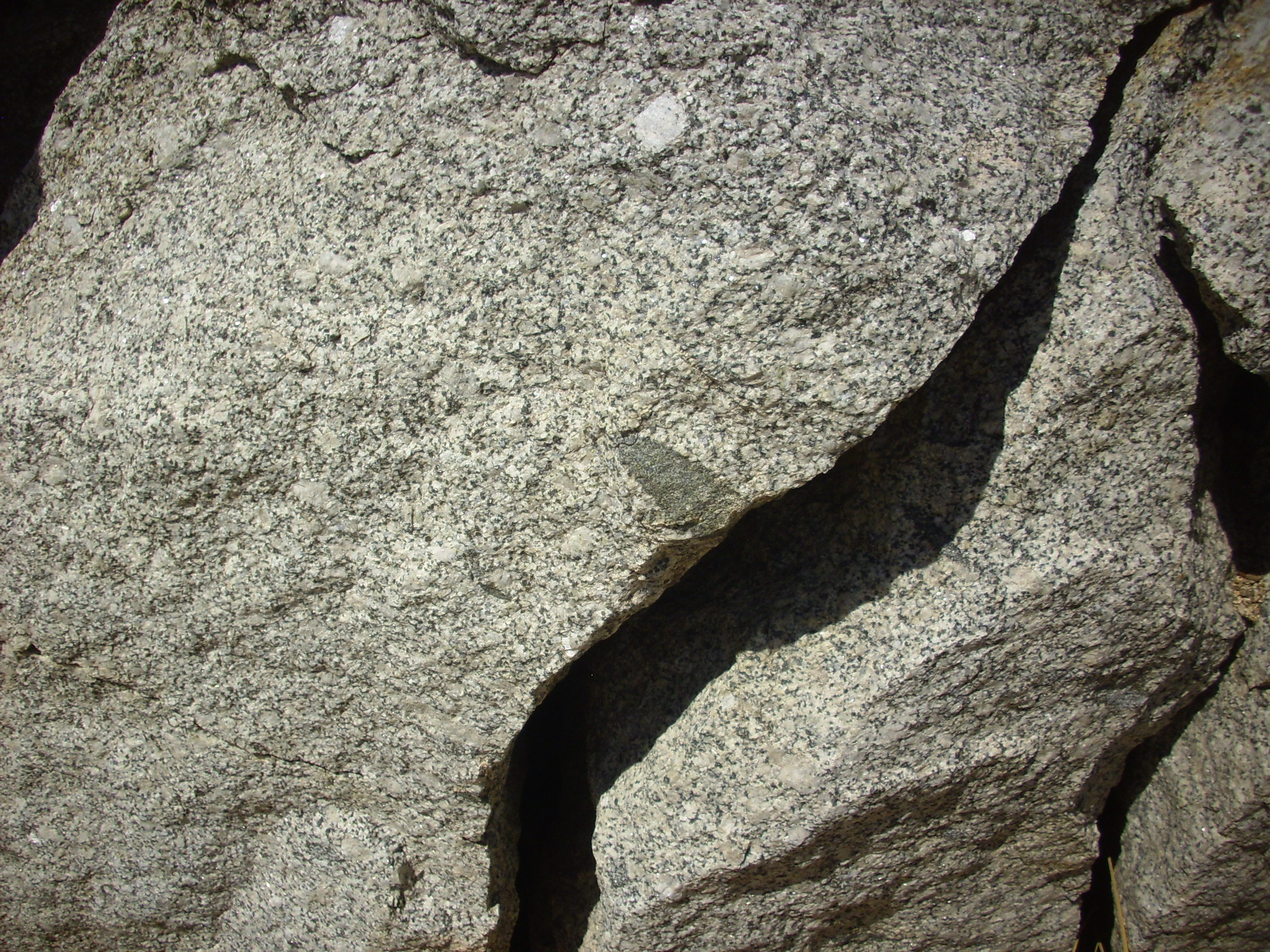 This image shows an outcrop of the Sandia batholith near its southern margin in Tijeras Canyon, New Mexico, USA. The Sandia Granite was emplaced 1453 million years ago, during the Mazatzal Orogeny. The outcrop here is almost pristine, showing little sign of deformation after crystallization, and it contains a mafic xenolith (the dark patch of rock) either incorporated as country rock or as injected mafic magma that has not mixed with the main magma body.